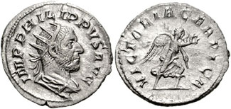 Silver Antoninianus coin issued by the Roman emperor Philip the Arab to commemorate his victory over the Dacian Carpi in AD 247. Obverse: Head of Philip wearing diadem, with legend: IMP(erator) PHILIPPVS AVG(ustus); Reverse: Figure of winged goddess Victory bearing palm and laurel-wreath, with legend: VICTORIA CARPICA. Mint: Rome. Date: undated, but must have been issued in period 247-9[1] Philippus Arabus. 244-249 AD. AR Antoninianus (23mm, 4.35 gm). IMP PHILIPPVS AVG, Laureate, draped and cuirassed bust right, seen from behind VICTORIA CARPICA, Victory advancing right, holding palm and wreath. RIC IV 66; RSC 238. VF, minor porosity. Rare.